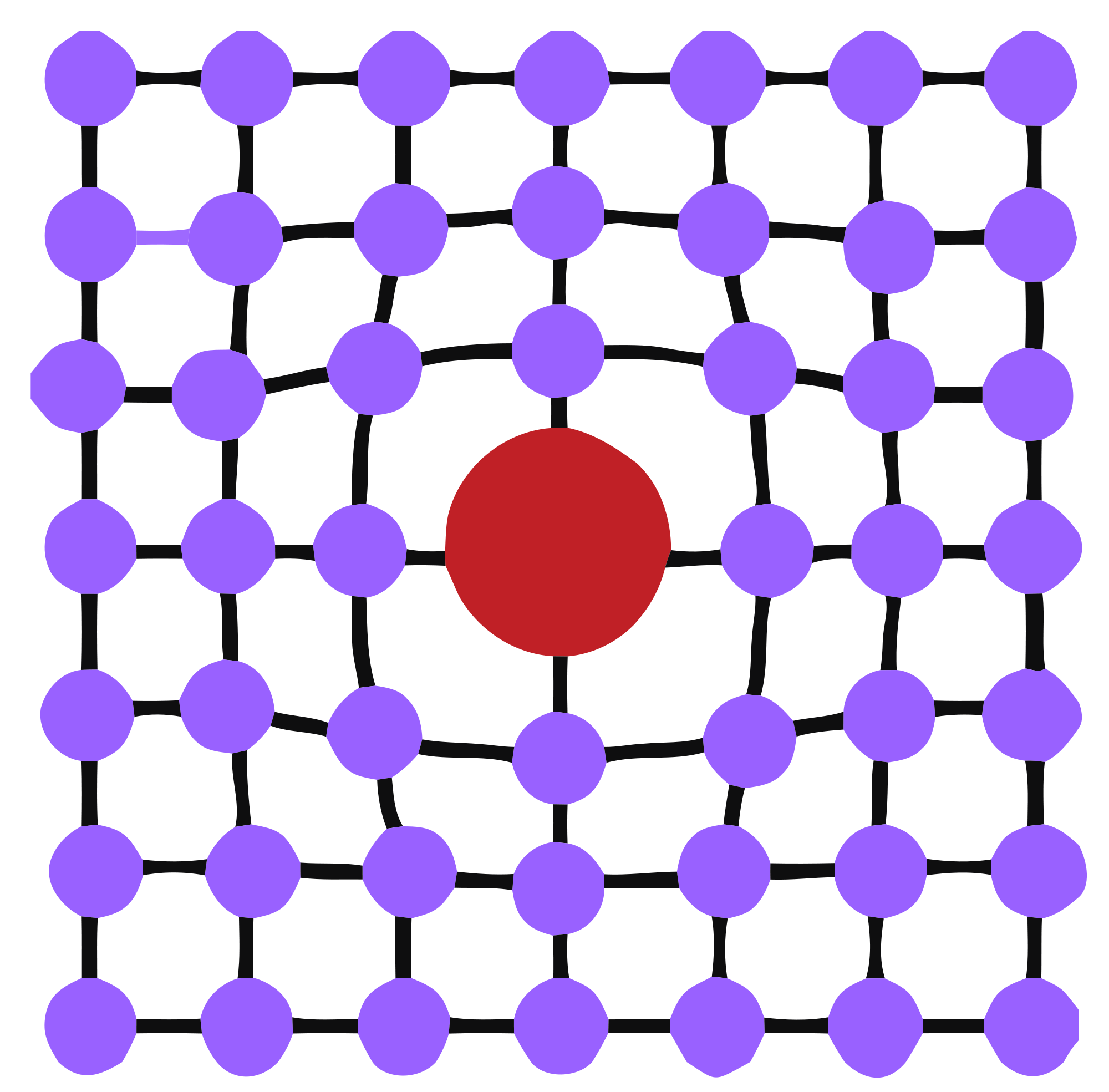 Subs2